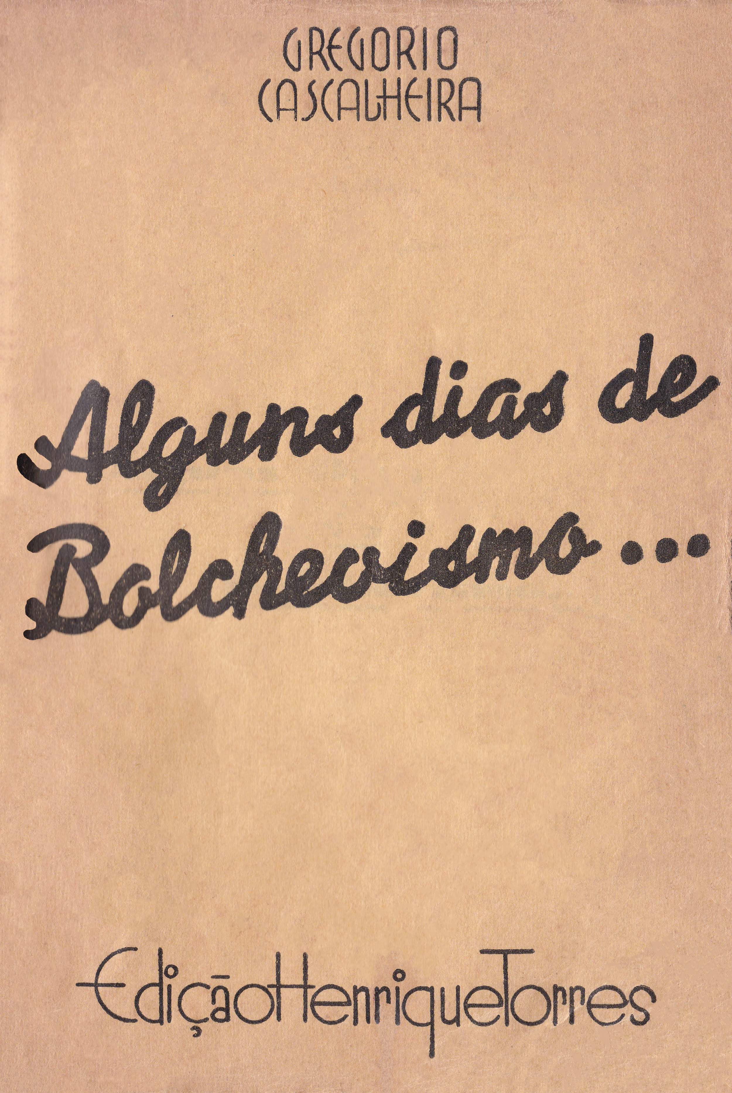 Book cover of "Alguns dias de Bolchevismo"